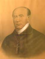 Henry Conwell